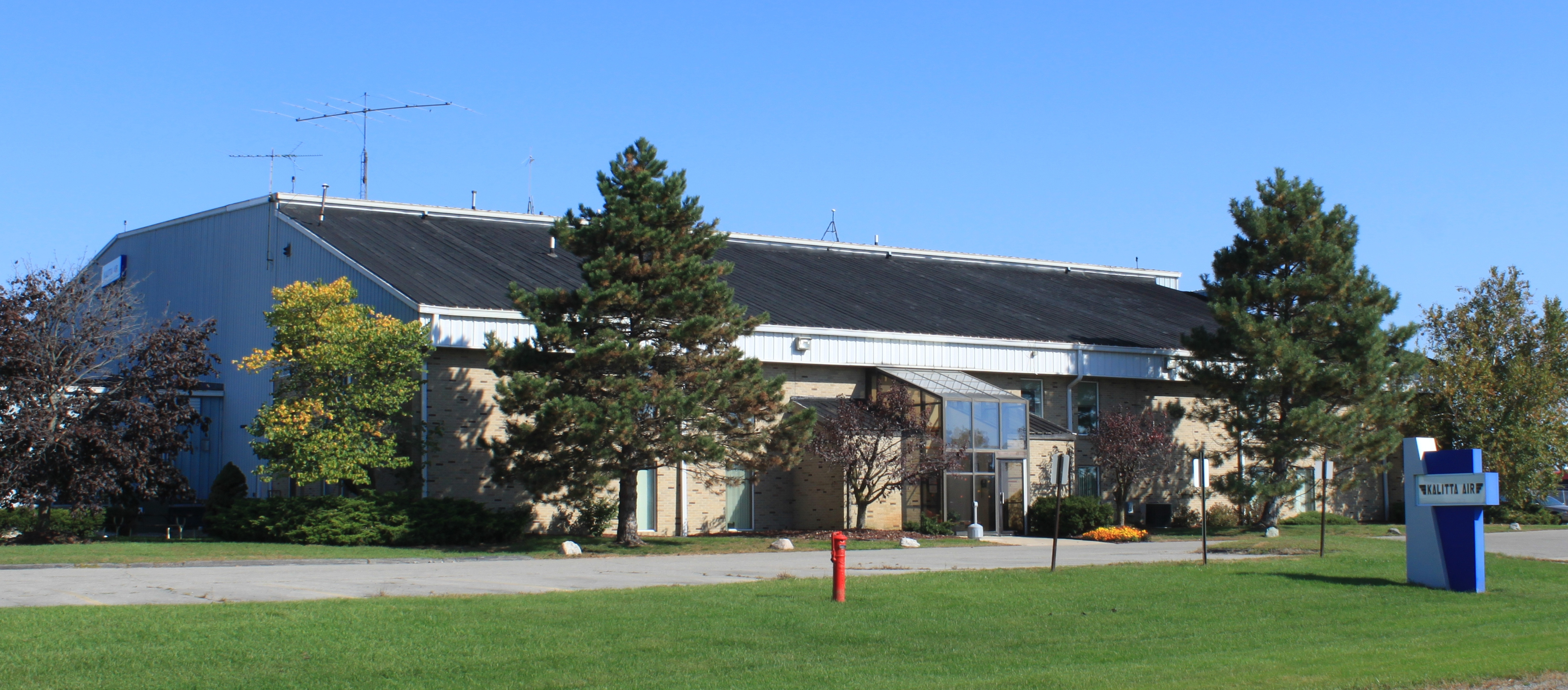 Kalitta Air offices, 818 Willow Run Airport, Ypsilanti Township, Michigan.